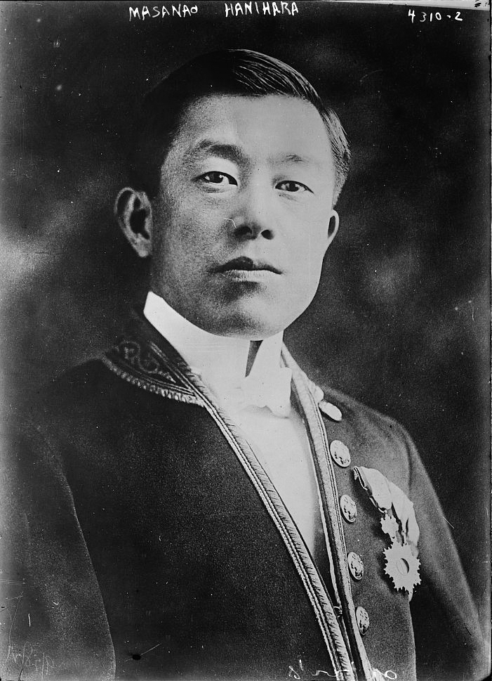 Masanao Hanihara